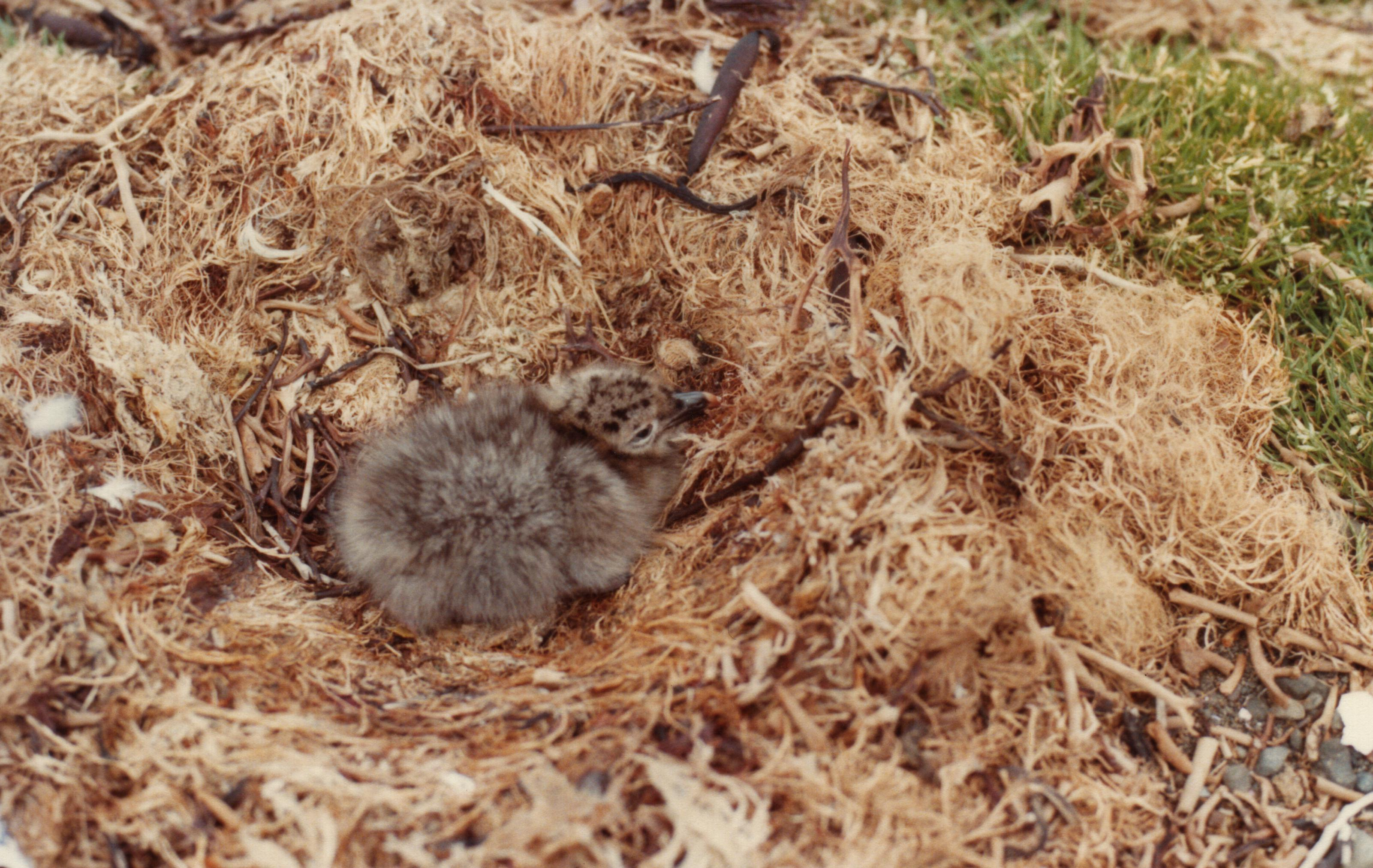 ' Kelp gull (Larus dominicanus) chick in nest